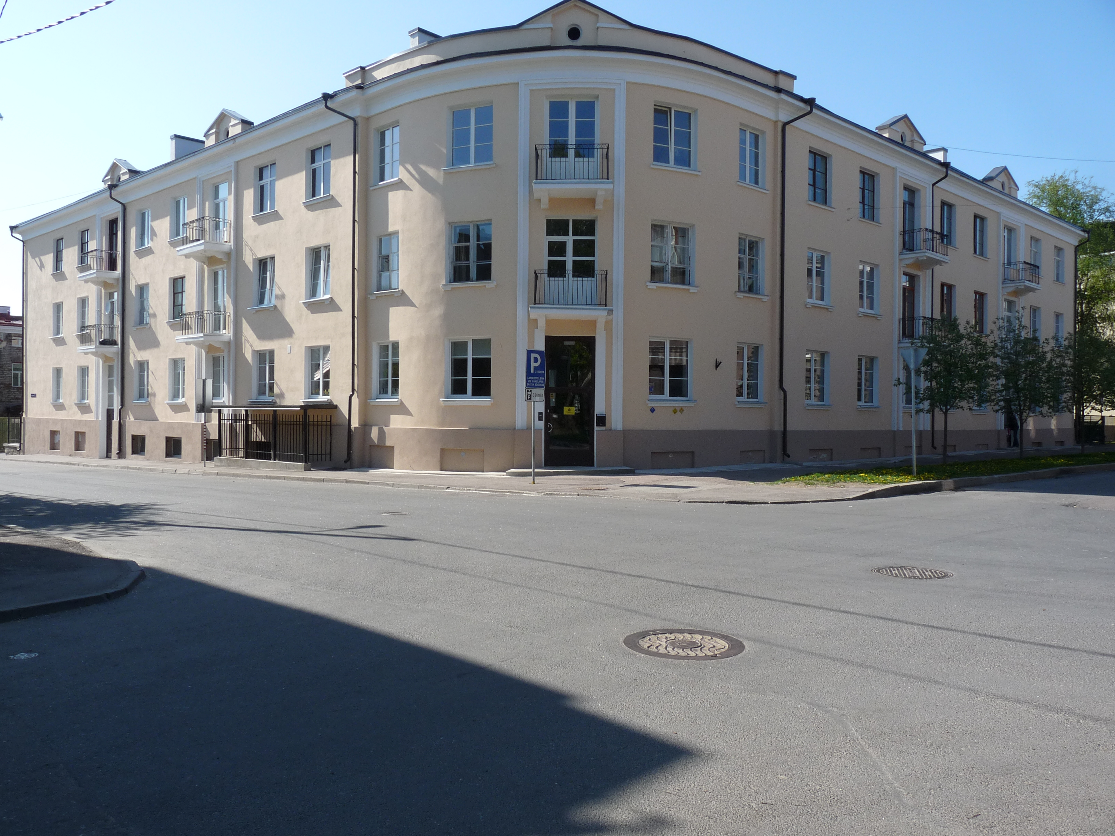 Apartment building in Kassisaba quarter, Tallinn, Estonia